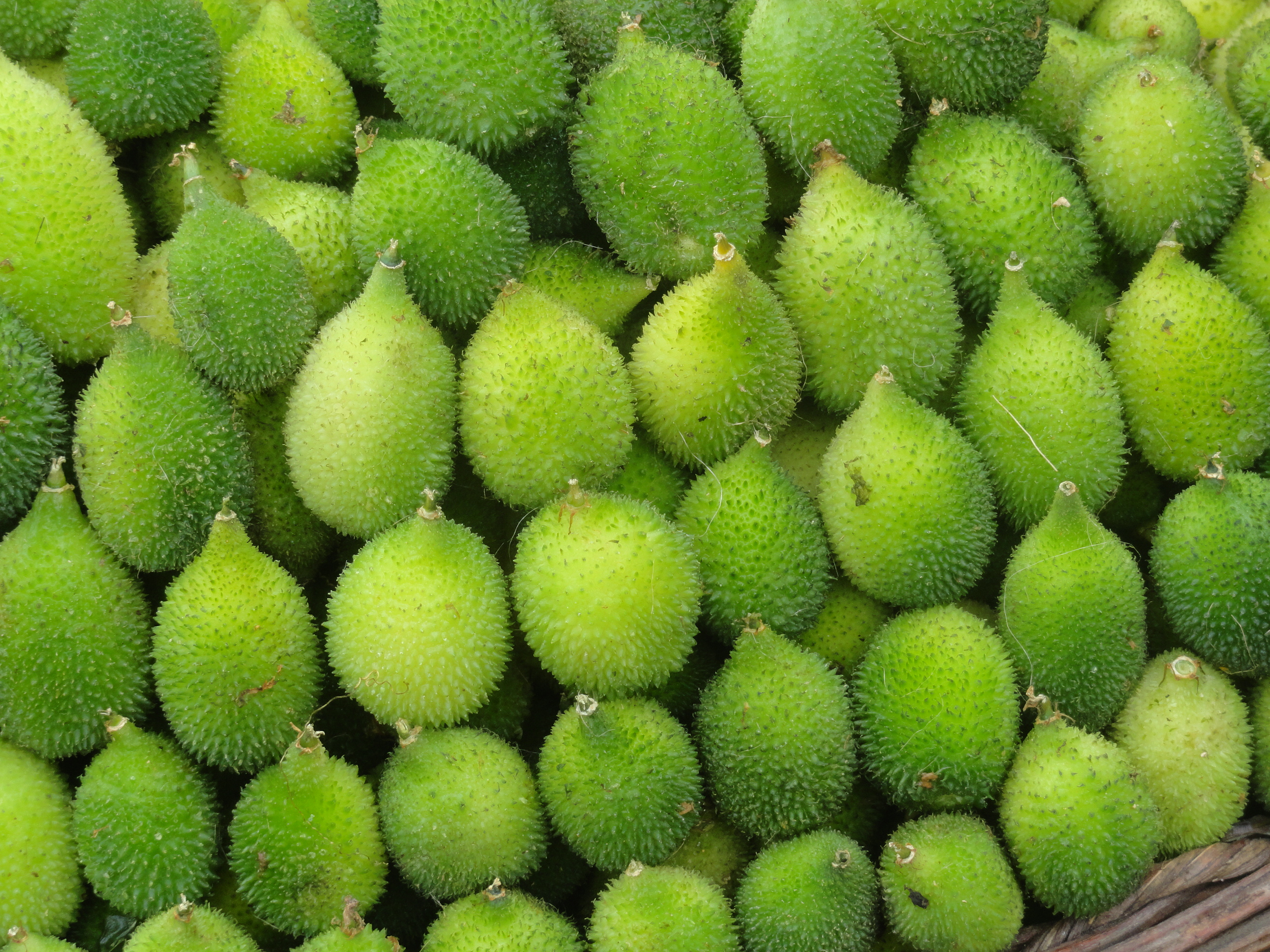 ఆకాకరకాయలు